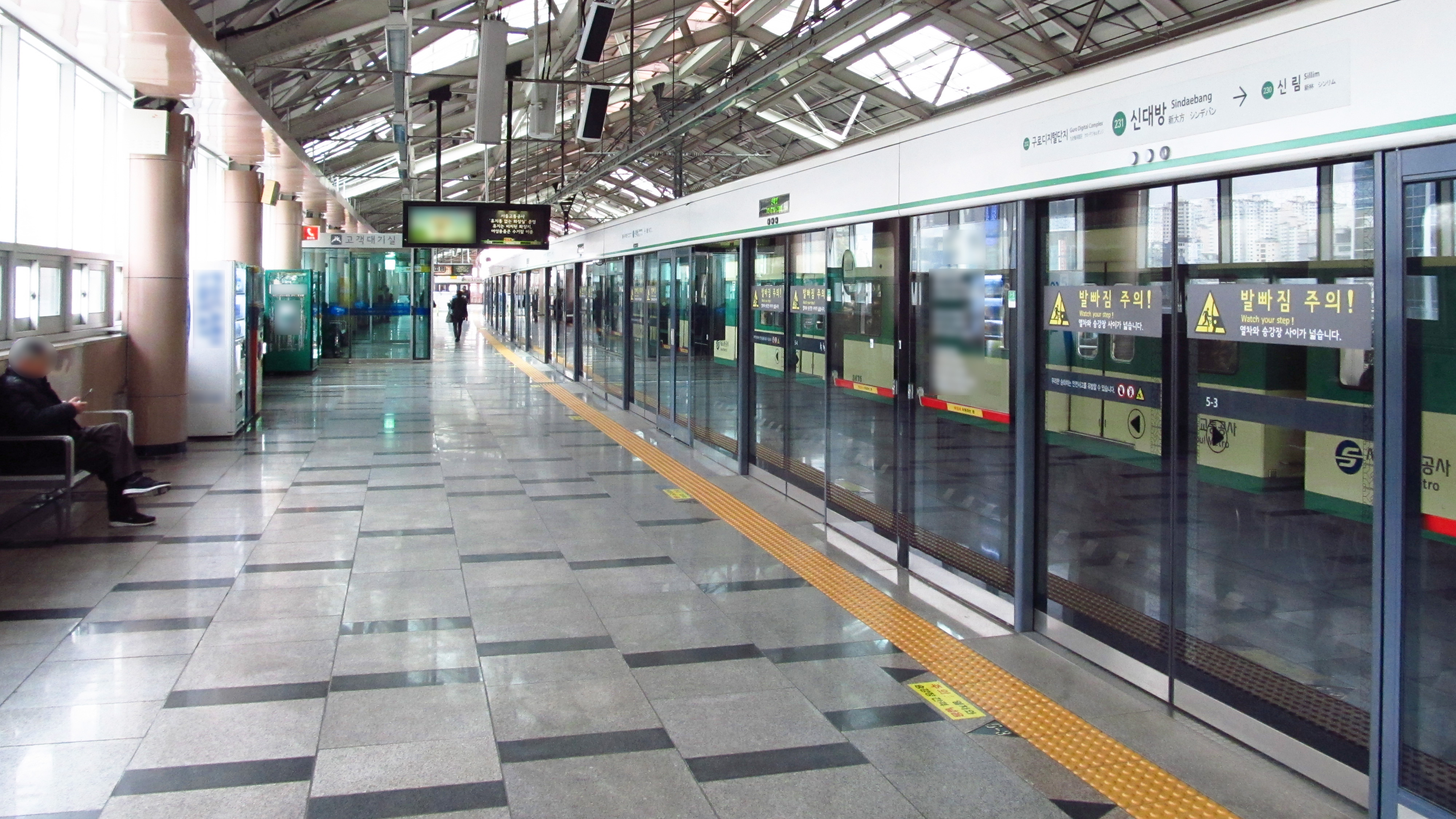 The platform at Sindaebang Station on Seoul Subway Line 2 in Dongjak-gu, Seoul, Republic of Korea(South Korea)